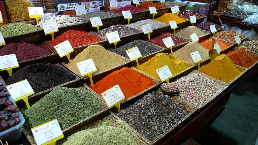 Mostly spices here, but a few teas at the front. It's said you shouldn't buy these pre-ground spices as they lose their flavors quickly, though the tourist market specializes in these because of their convenience and look.